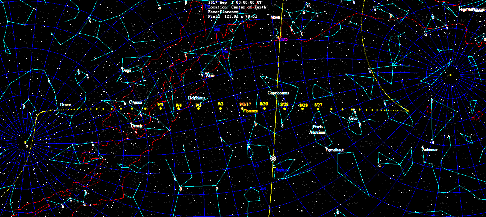 en:3122 Florence trajectory (daily motion) from earth from Sept 1, 2017 flyby.